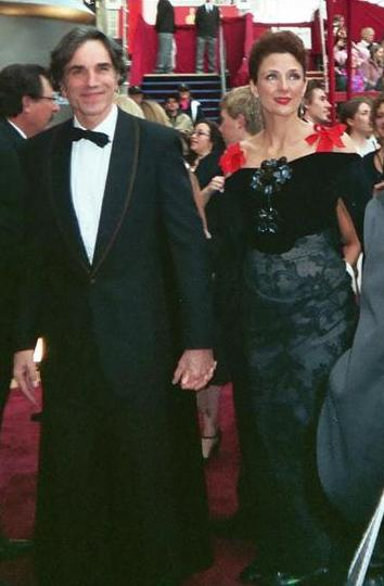 Actor Daniel Day-Lewis ("There Will Be Blood") and wife at 80th Academy Awards.